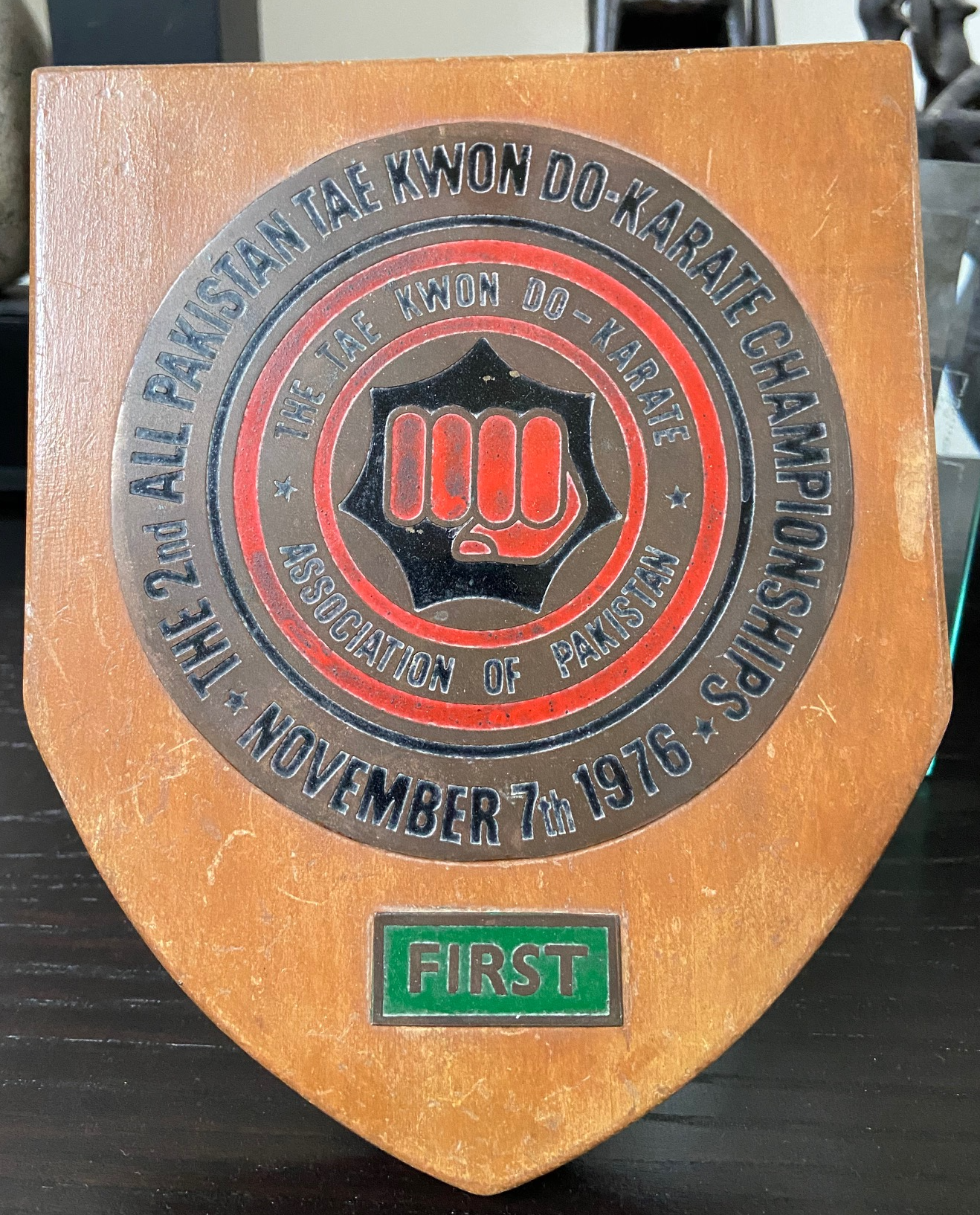 Medal for First Place at the 2nd All Pakistan Tae Kwon Do - Karate Championships, November 1976